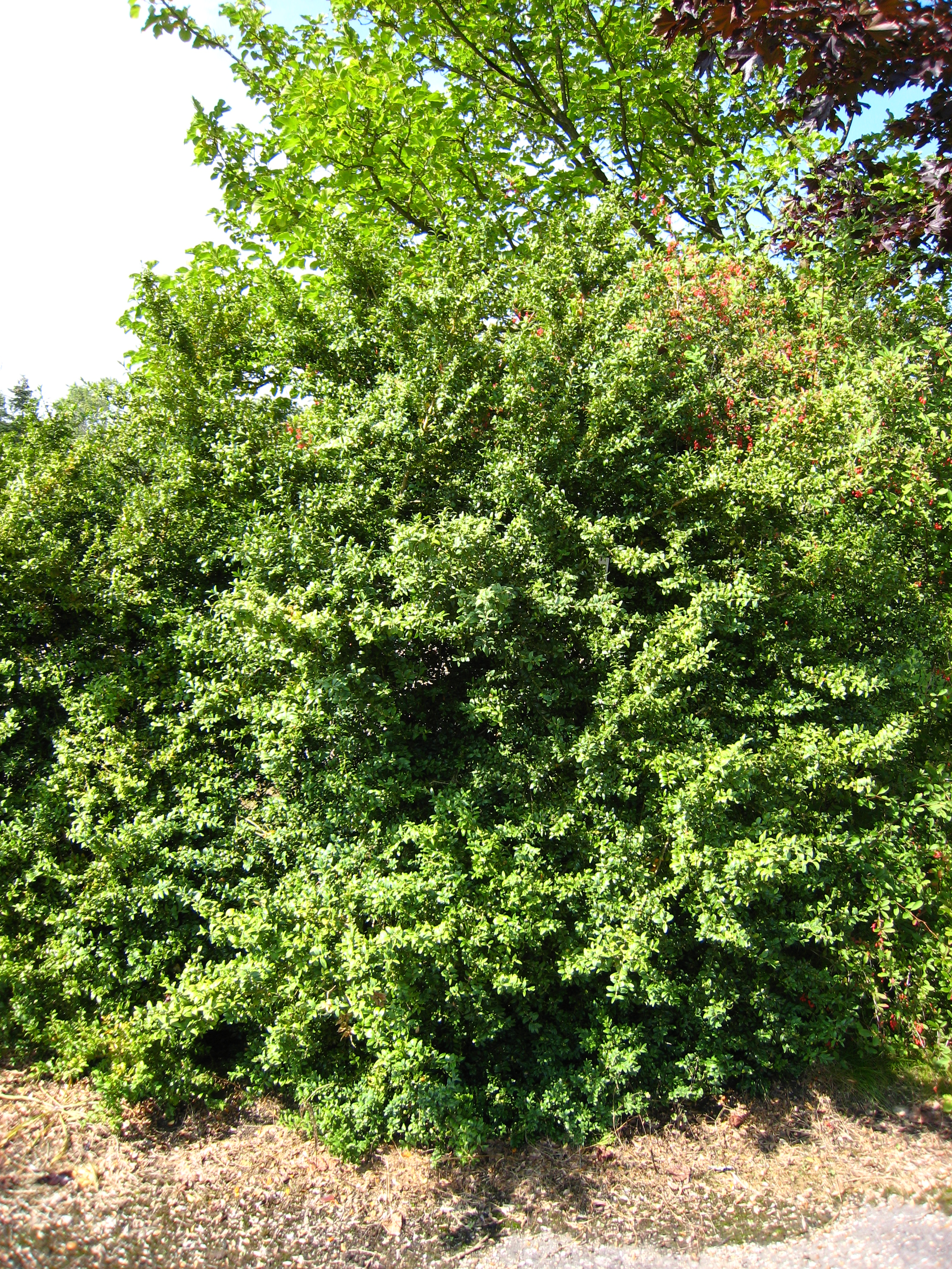 Buxus sempervirens in the Arboretum de Chèvreloup in Rocquencourt